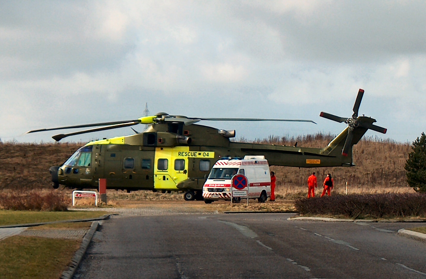 A RDAF rescue helicopter at Aarhus University Hospital, Skejby with a Falck ambulance